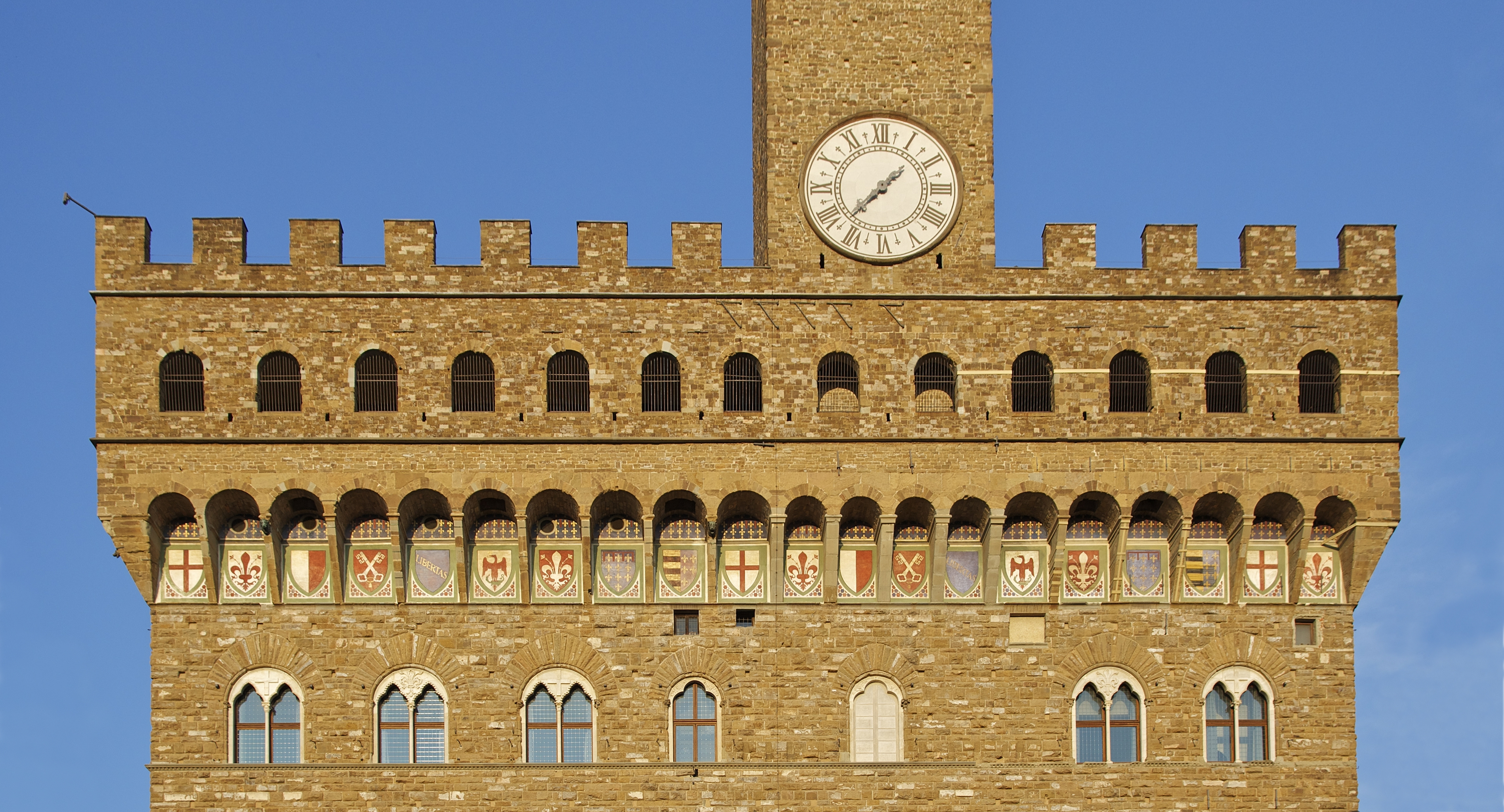 The coats of arms of the main façade of the Palazzo Vecchio in Florence, Italy. 1353